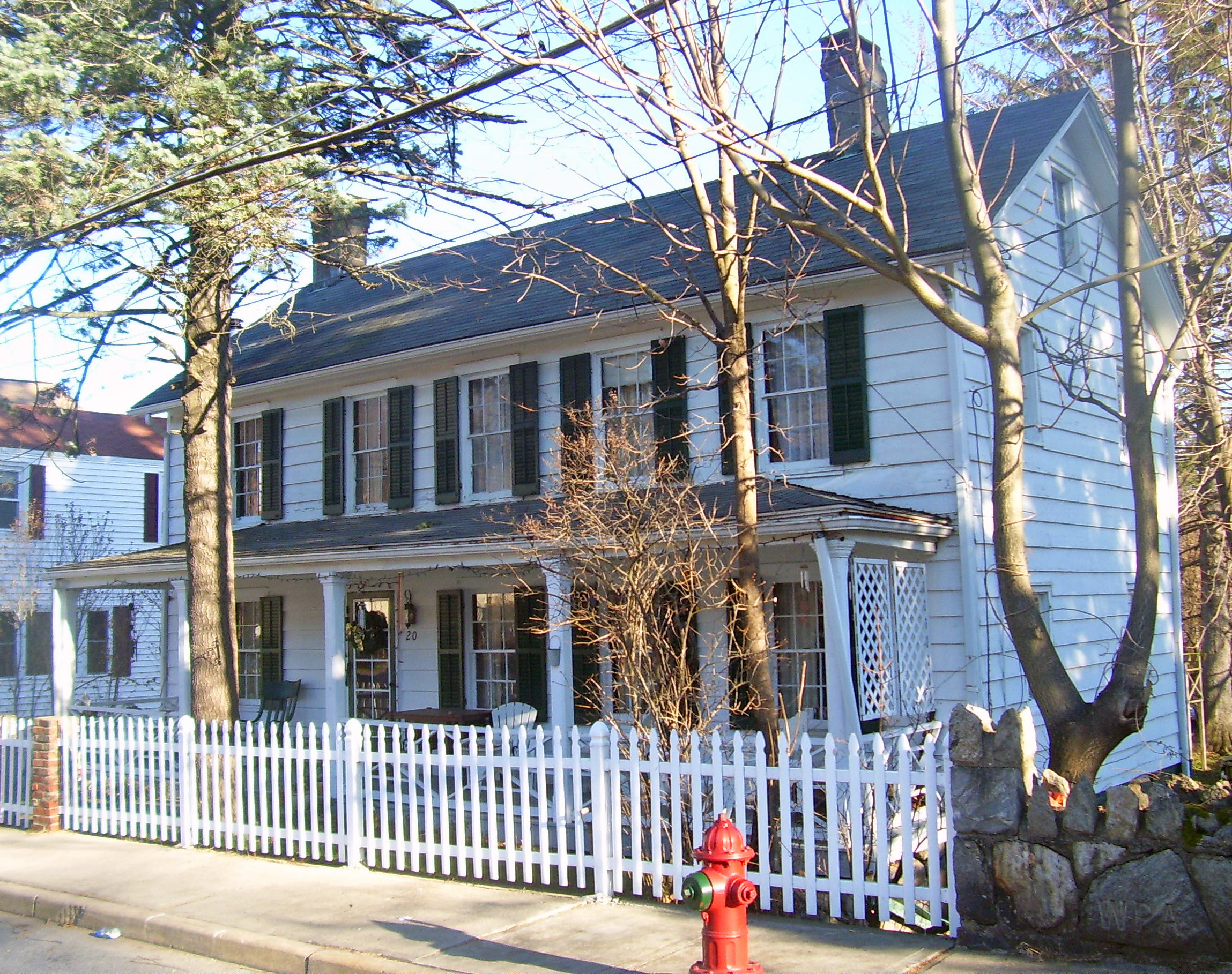 House at 20 Center Street, Highland Falls, NY, USA (listed on the National Register of Historic Places as House at 37 Center Street (the village renumbered since then)